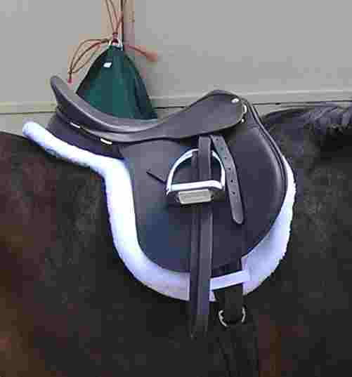 A hunt seat style saddle with shaped saddle pad, suitable for hunter and hunter under saddle classes, USA.